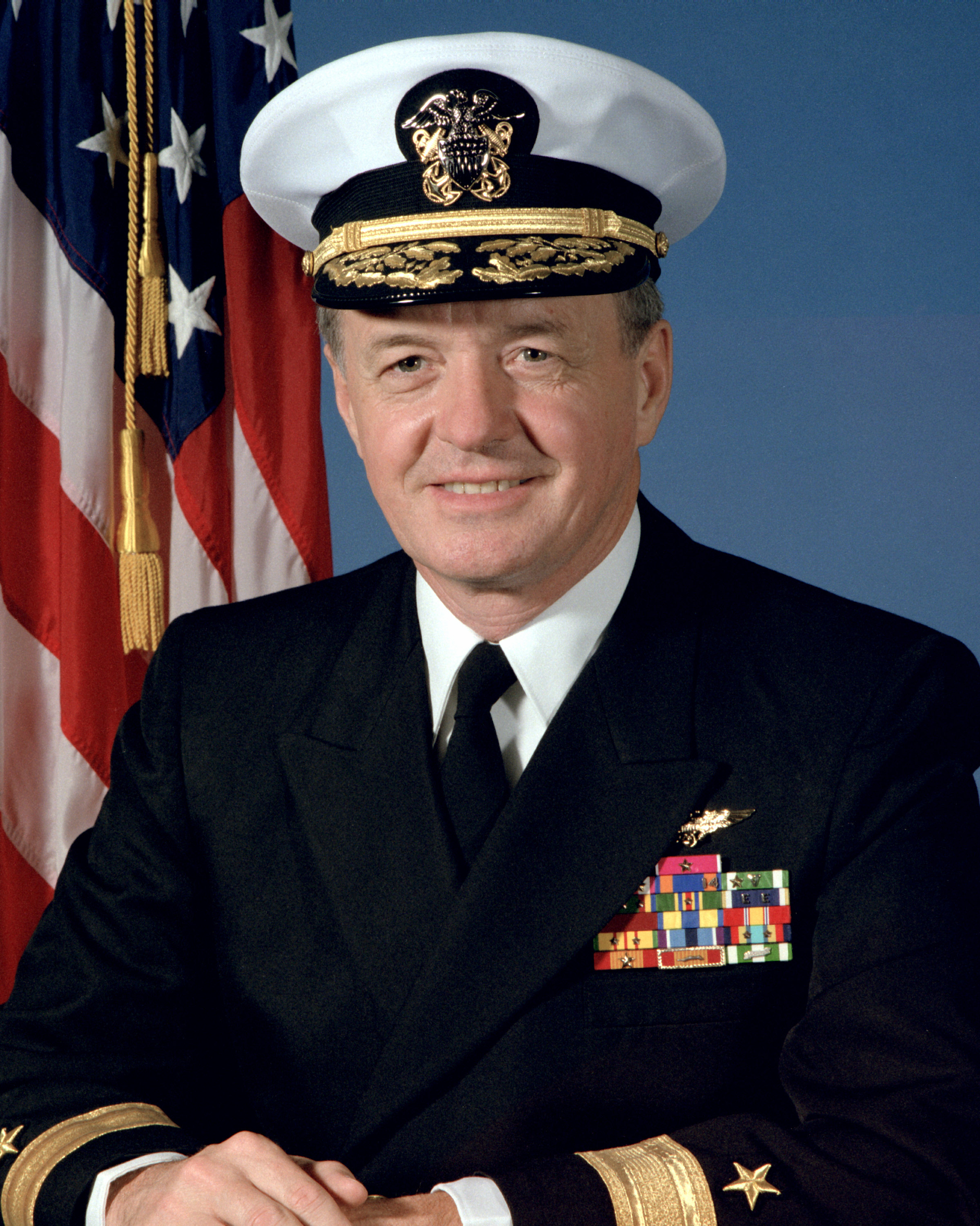 United States Navy Rear Admiral (later Vice Admiral) Jerry L. Unruh